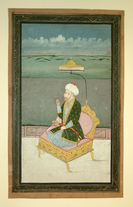 Indian, Moghul Sultan Abu Said Mirza date unknown Painting Gouache on paper AC 1967.30 Gift of Alban G. Widgery